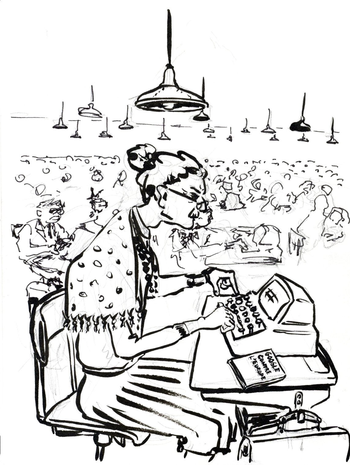 A cartoon sketch of an elderly woman sitting at a typewriter, manually creating an index for Google